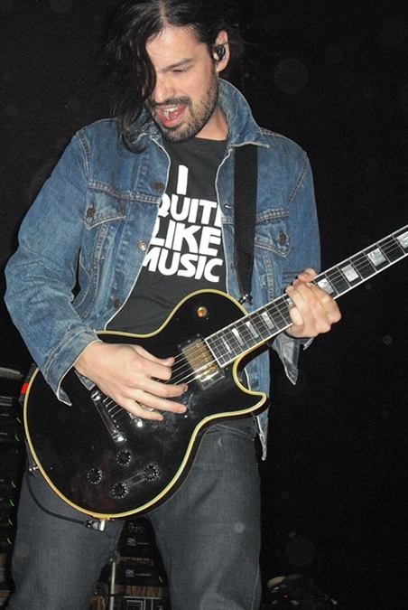 Tomo Milicevic of Thirty Seconds to Mars live at North Gate, Baton Rouge, LA, on February 18, 2010.